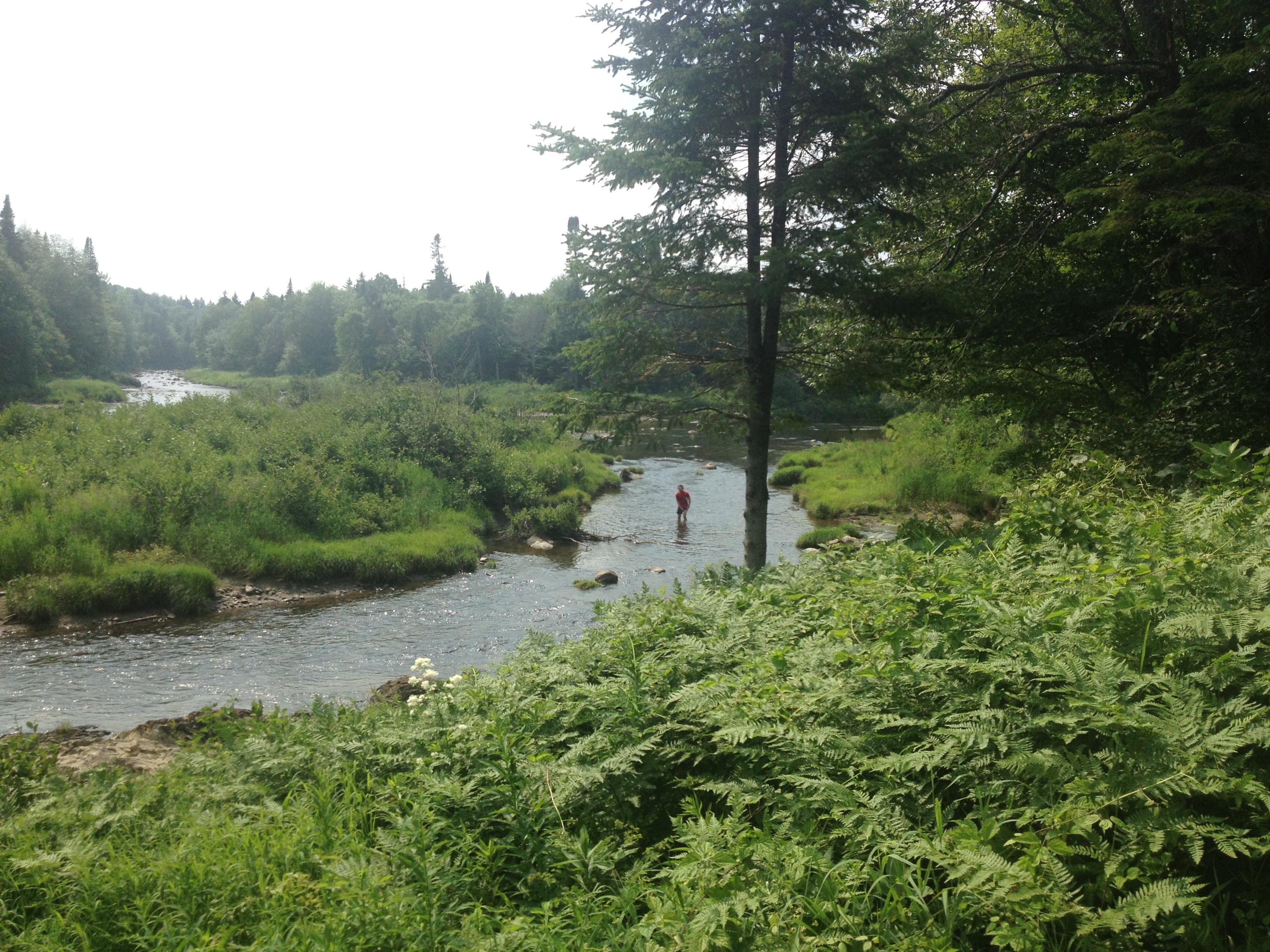 Man stands near the confluence of the Swift and Dead Diamond Rivers, Second College Grant, New Hampshire, July 2015.